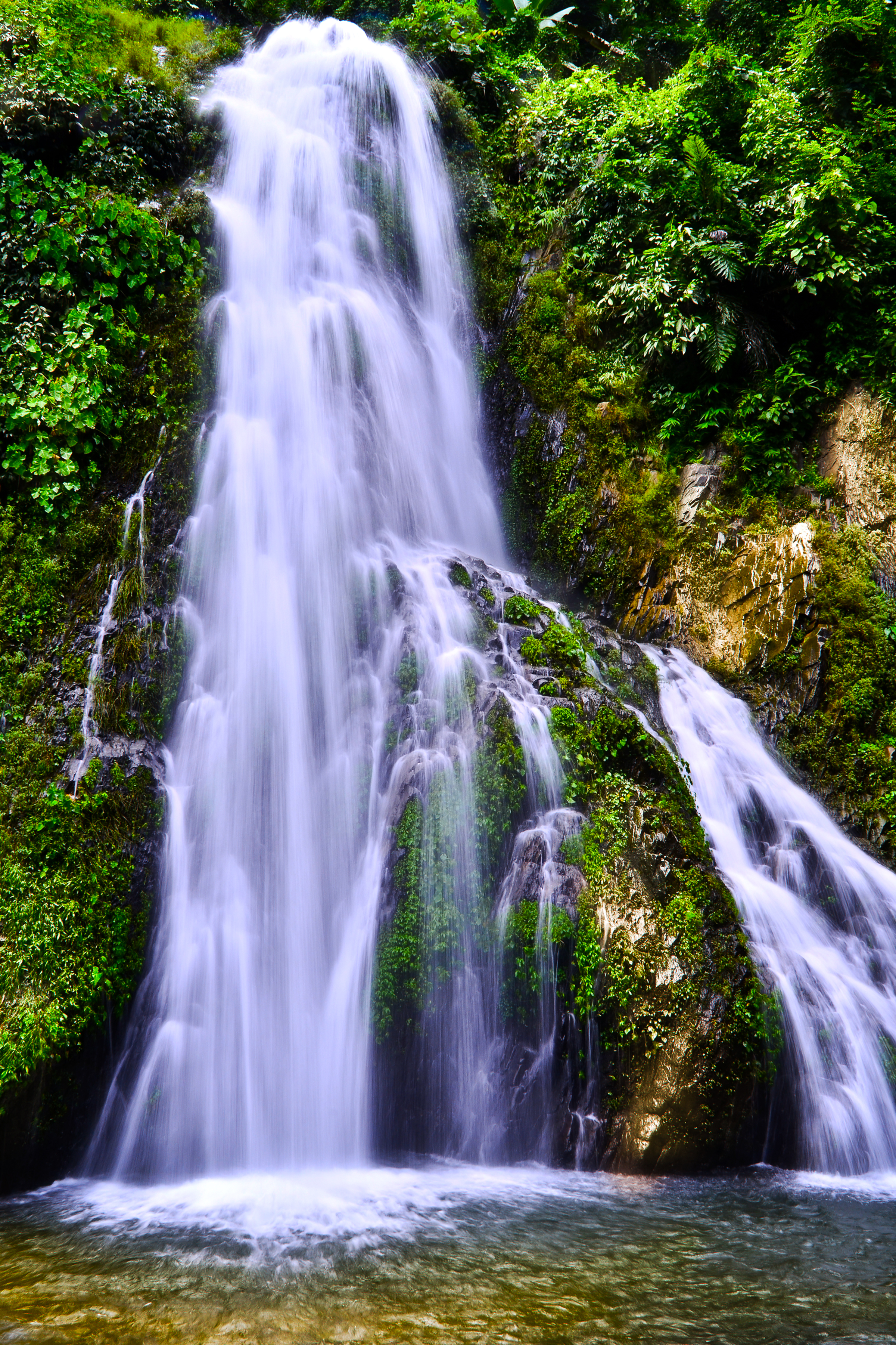 The scenic beauty of Kanthi waterfall which is situated in Kanthi Village, some 12 kilo meters away from Dengaon in Karbi Anglong district of Assam in India. Photography by Diganta Talukdar